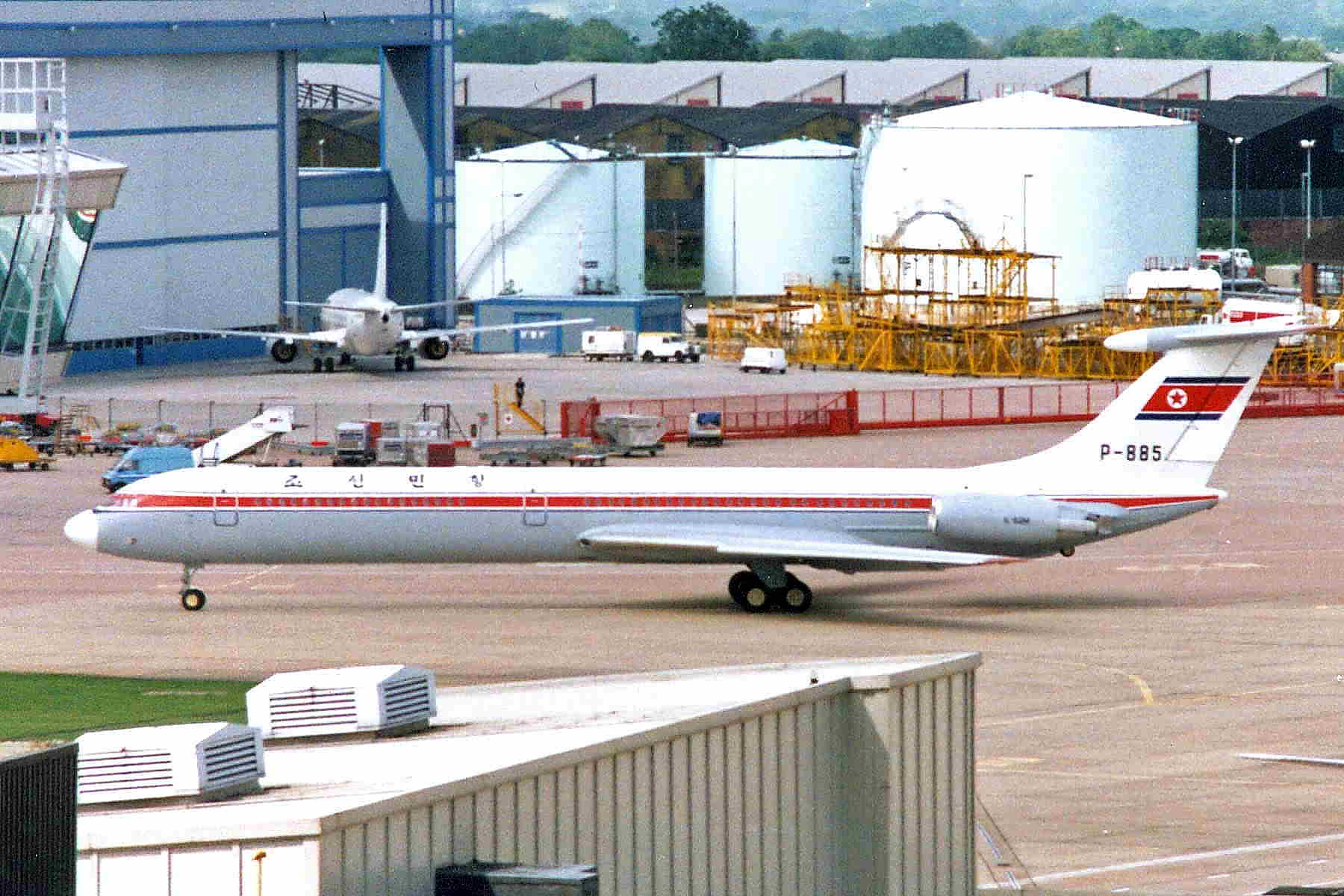 Back to the days when Air Koryo was still "Chosonminhang" (조선민항)... This 62 is still flying as of 2014.